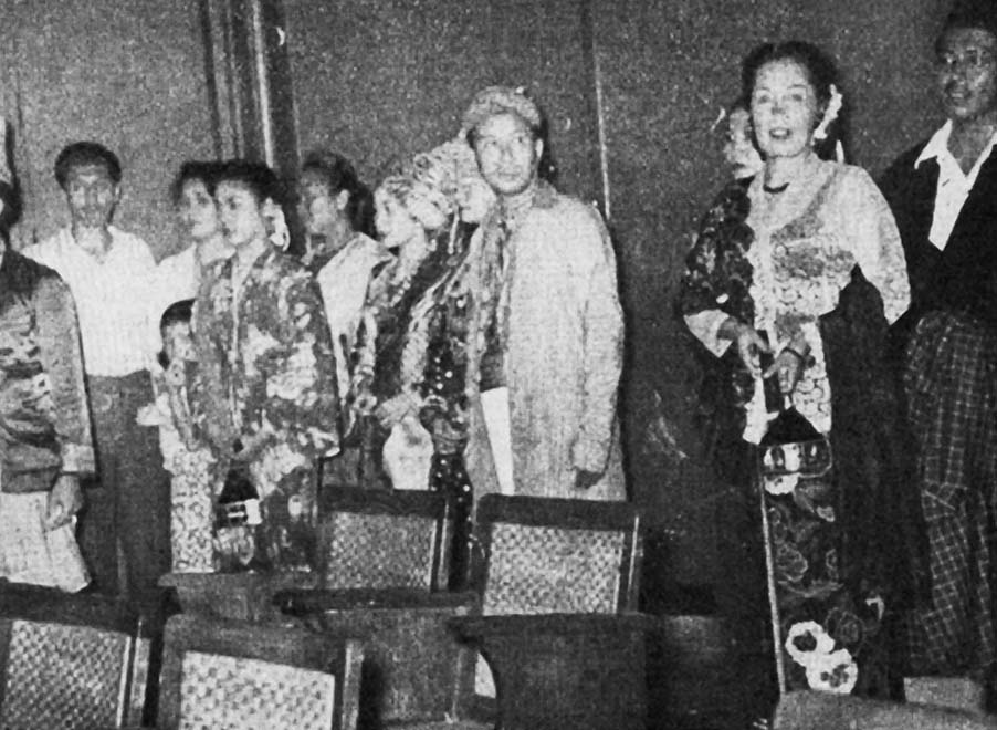 Dhalia, Ermina Zaenah, Rd Ismail, and Fifi Young at first Indonesian Film Festival